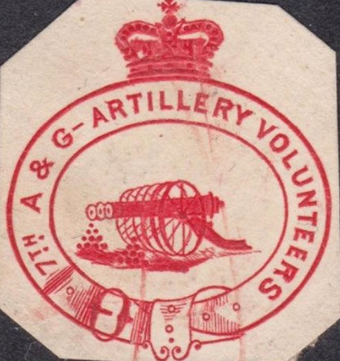 Letterhead, 7th Ayrshire and Galloway Artillery Volunteers, c1895